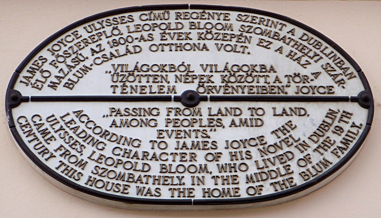 Ulysses - Leopold Bloom, Szombathely